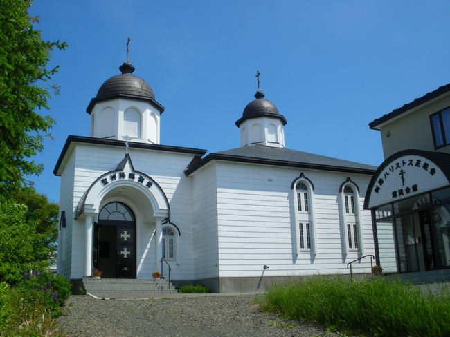 Orthodox Church in Kushiro, dedicated to Pentecost (the church of the descent of the Holy Spirit), belonging to Orthodox Church in Japan.